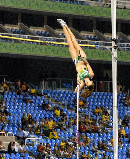 Fabian Murer, Brazilian pole-vaulter